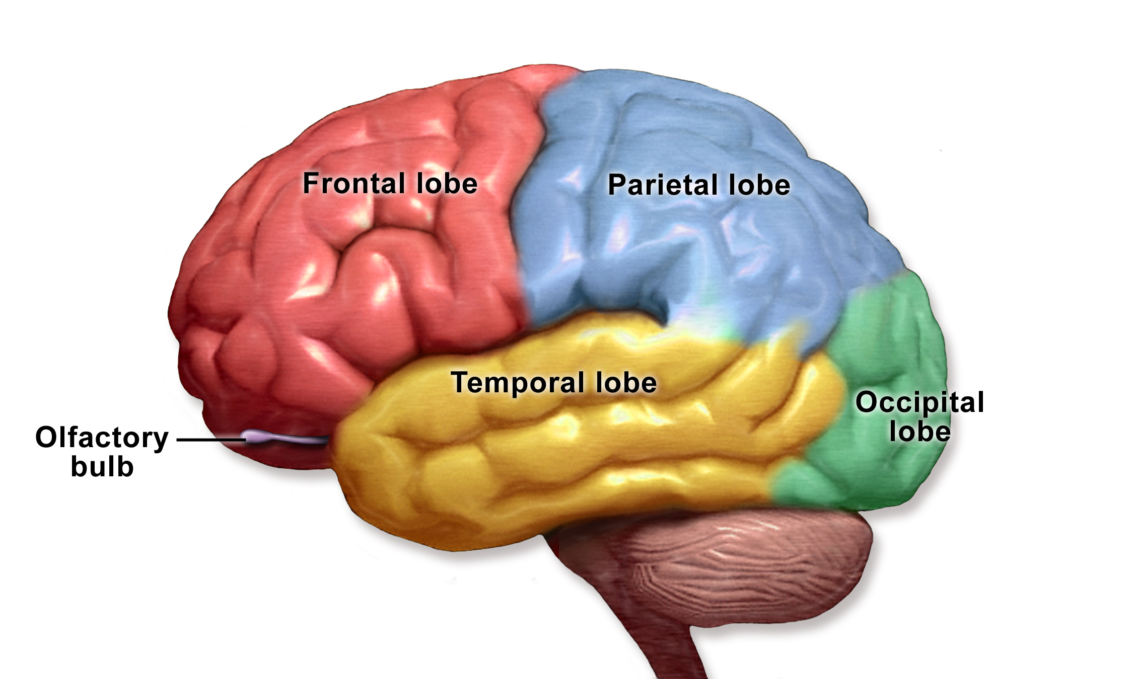 Brain Lobes. See a full animation of this medical topic.